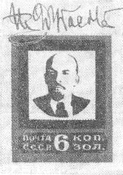 USSR stamp, Lenin's memories, 1924, 6 k.